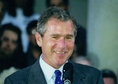 Photo by Craig Michaud. This is in Concord, New Hampshire after finishing filing to run for President